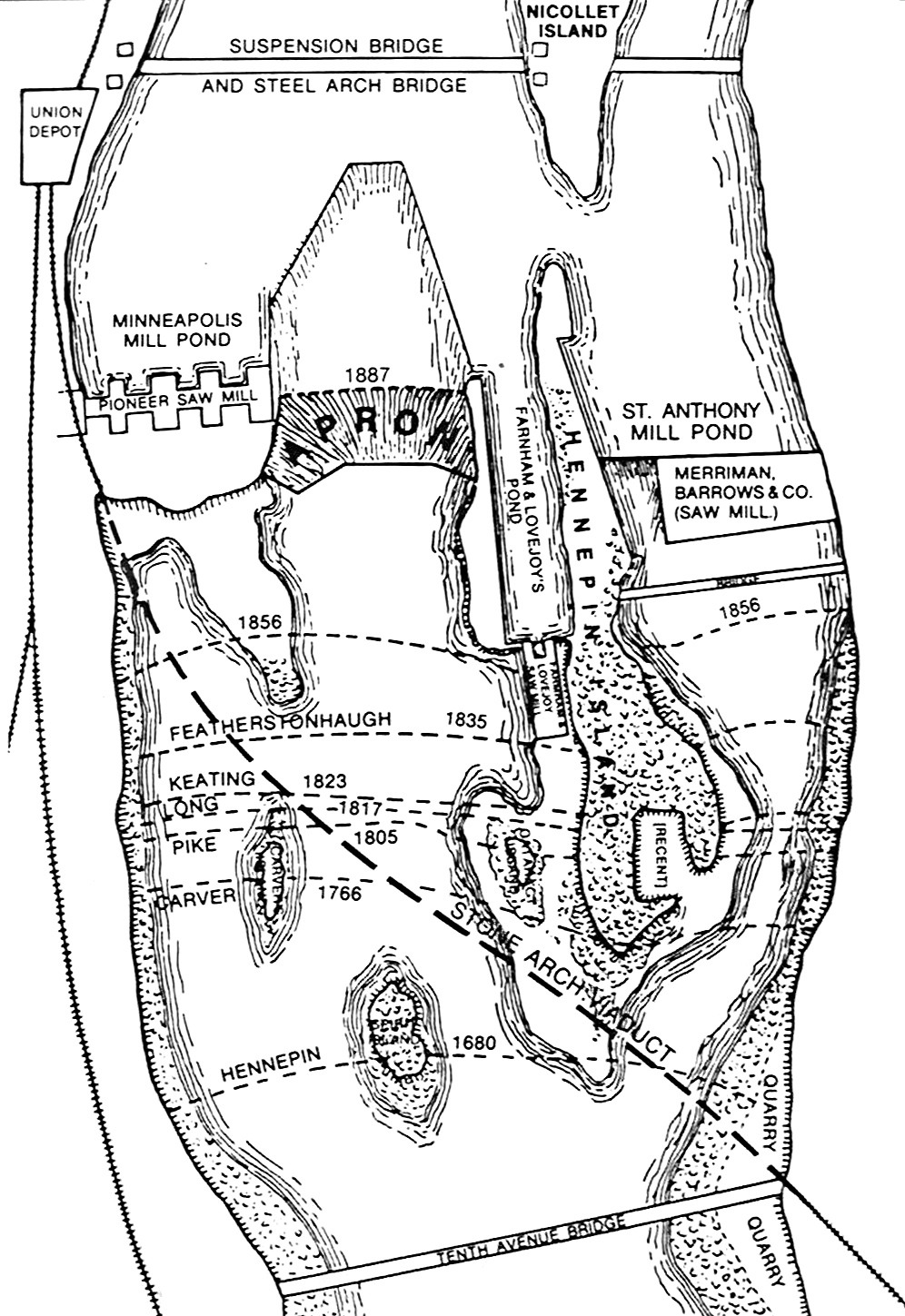 taken by William Wesen 09/13/06 Mississippi River at St. Anthony Falls Showing the recession from 1680 to 1887. Original image credit: US Army corp of engineers. Minneapolis, Minnesota.